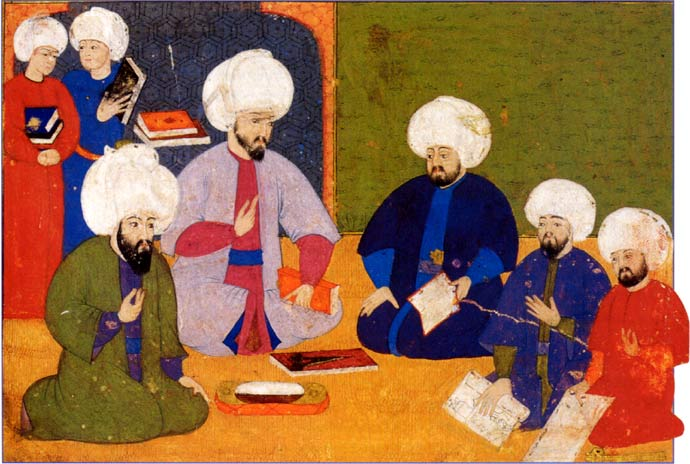 Consultation of old scriptures. The miniature painting depicts the consultation of old manuscripts by the scholars Şemseddin Ahmet Karabaği, Lokman, the writer Ilyas Katib and the painters Nakkaş Osman and Ali for the programme of the "Şahname-ı Selim Khan". Ottoman miniature painting. Topkapi Sarayi Müzesi, Istanbul (Inv. A.3595, fo. 9r)